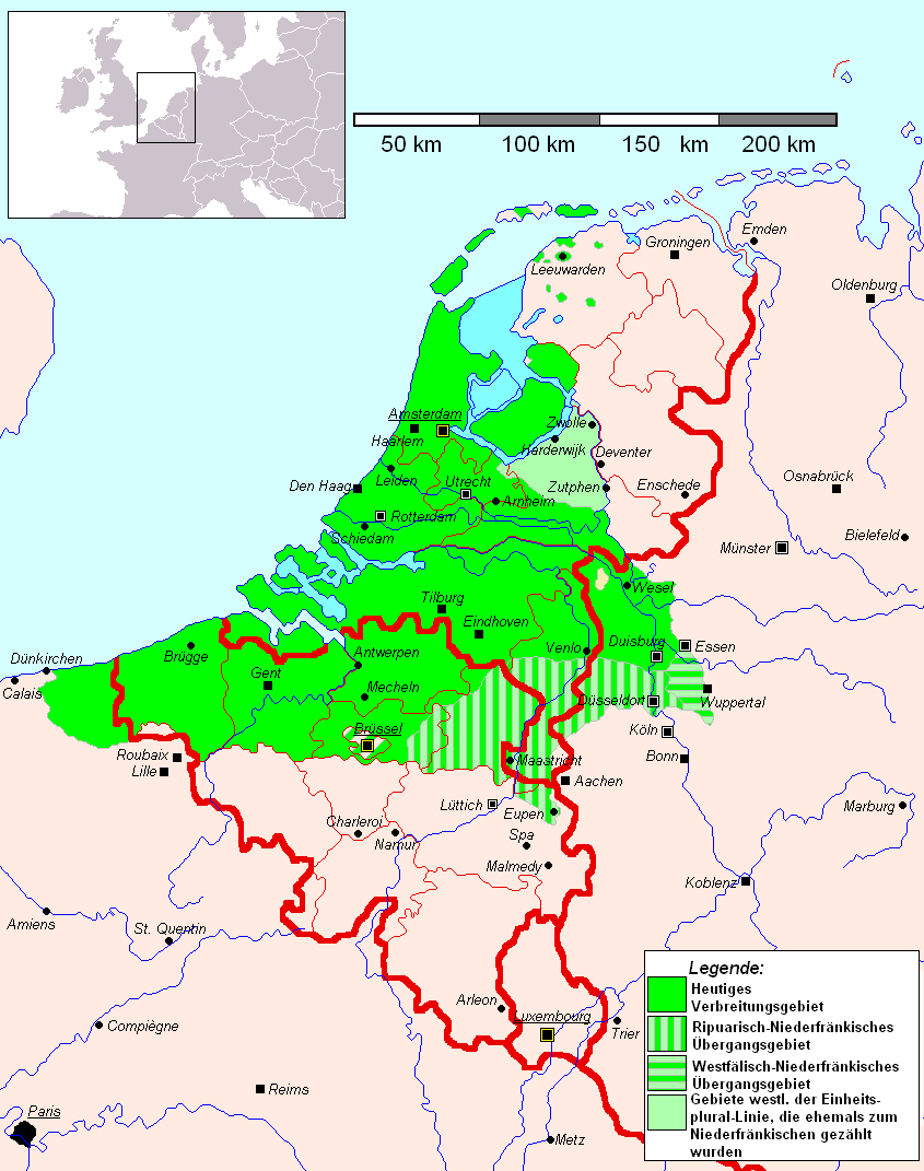 Low Franconian